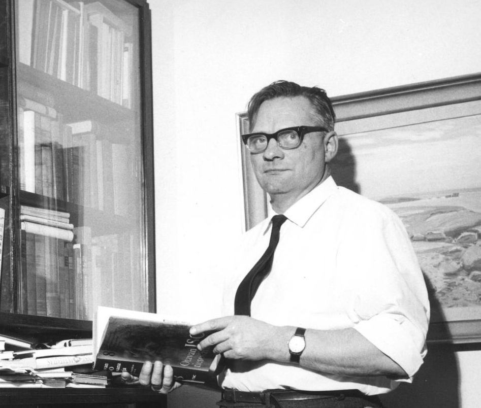 Photograph of the Finnish quiz master Esko Kivikoski (1914–1987).